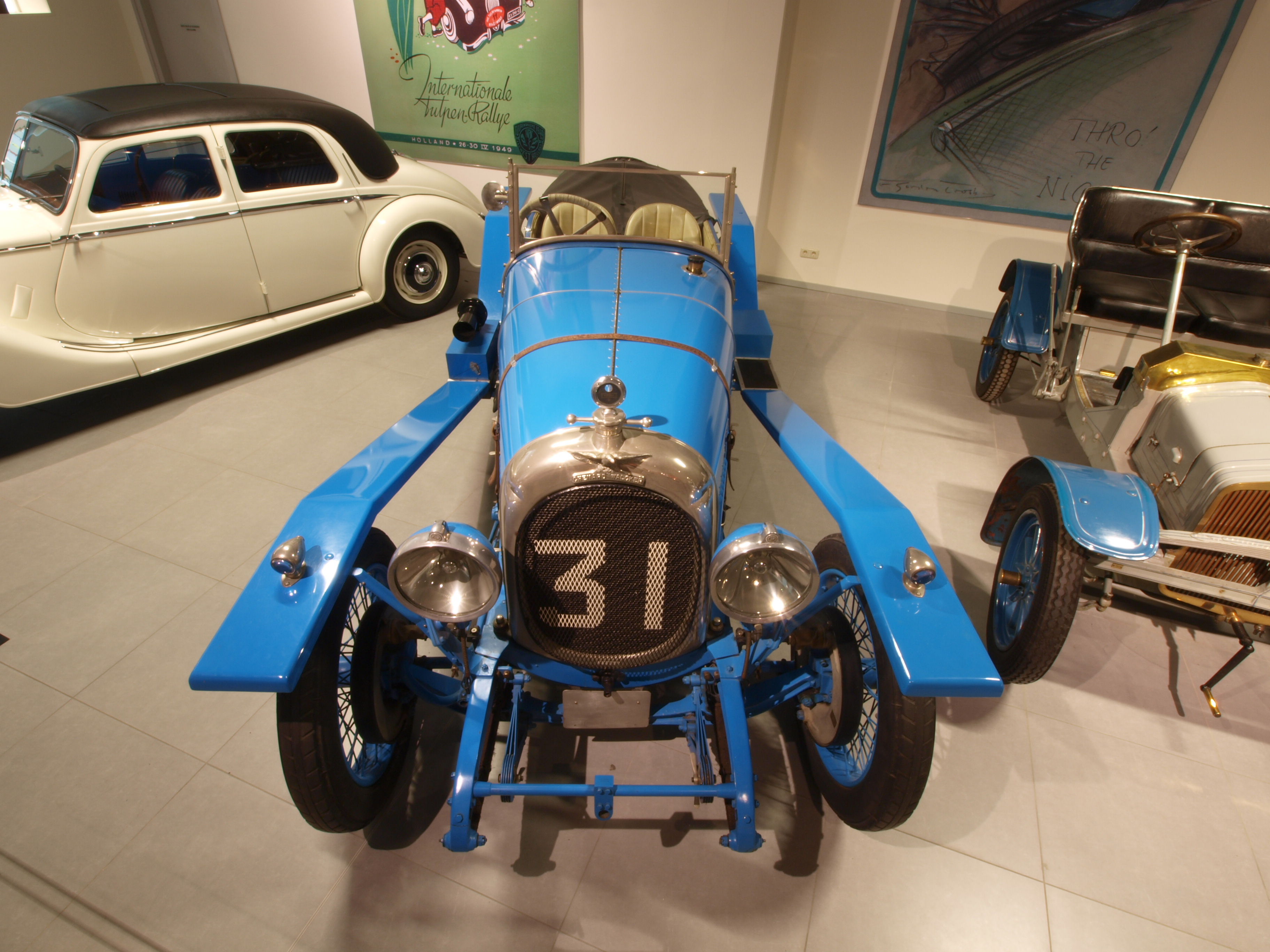 Photographed at the Louwman museum / Louwman Collection, The Netherlands.